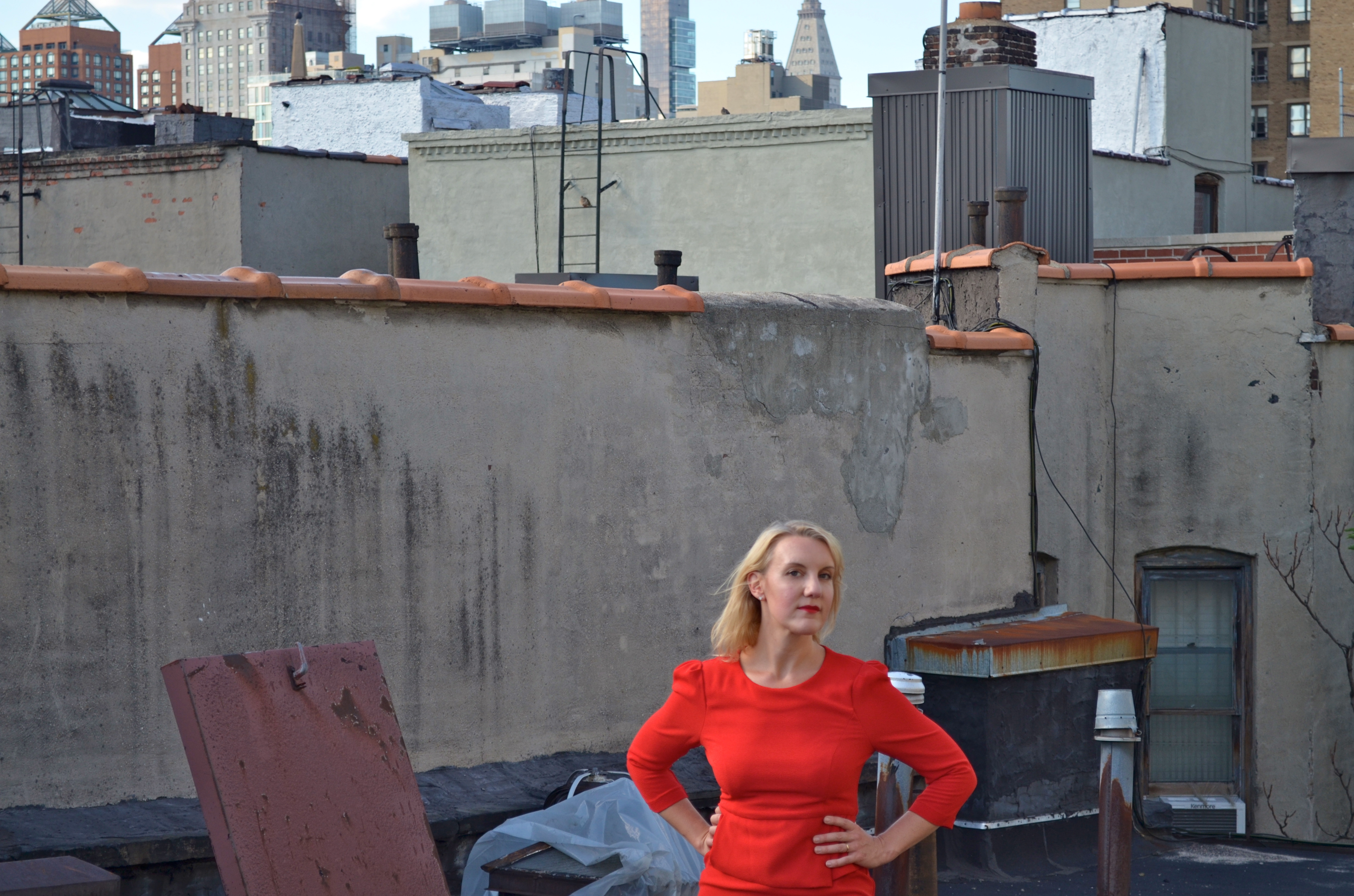 Ada Calhoun on a St. Marks Place rooftop, 2015.